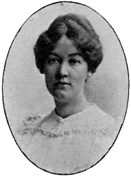 Image scanned from the book "Svenskt Porträttgalleri XX - Arkitekter, Bildhuggare, Målare m.fl. " ("Swedish Portrait Gallery XX - Architects, Sculptors, Painters, ") published 1901